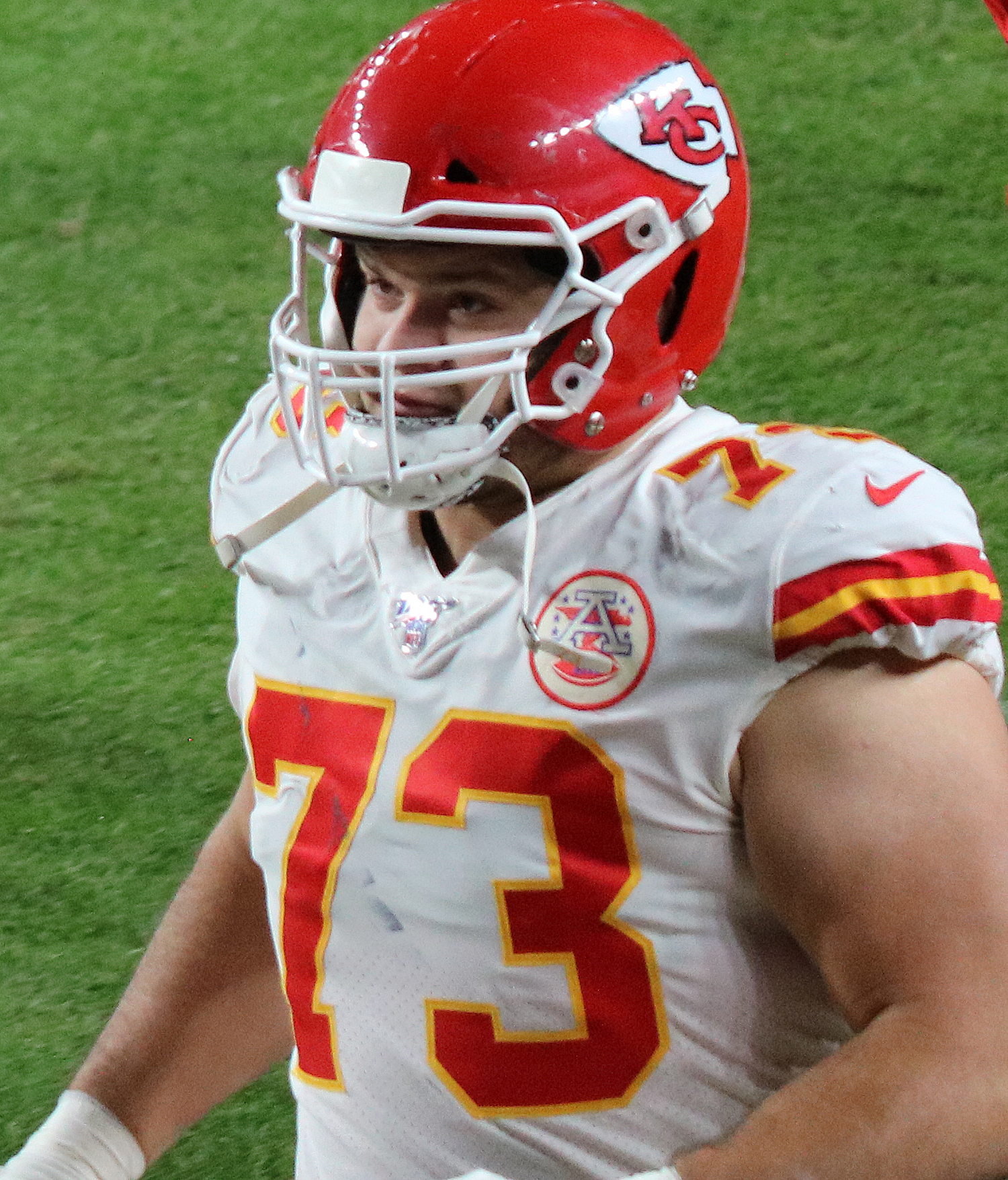 Nick Allegretti, a National Football League player.